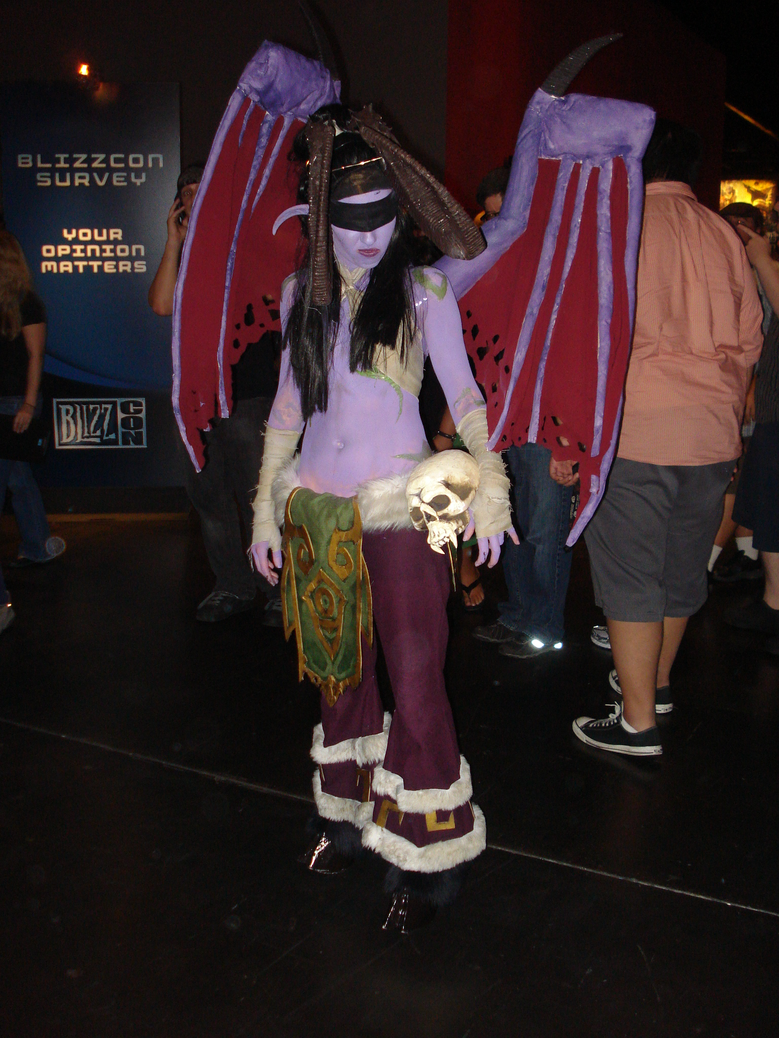 Illian Costume